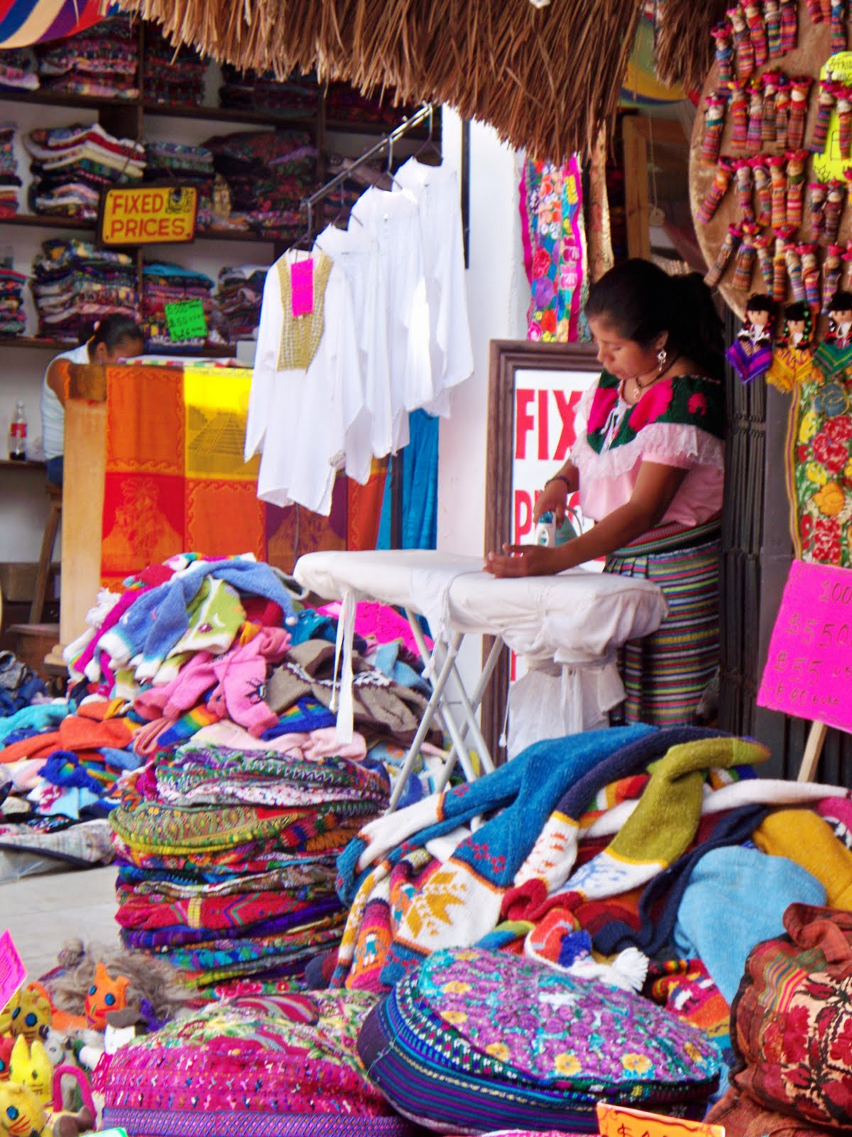 Shopkeeper Ironing in Cancun Mexico